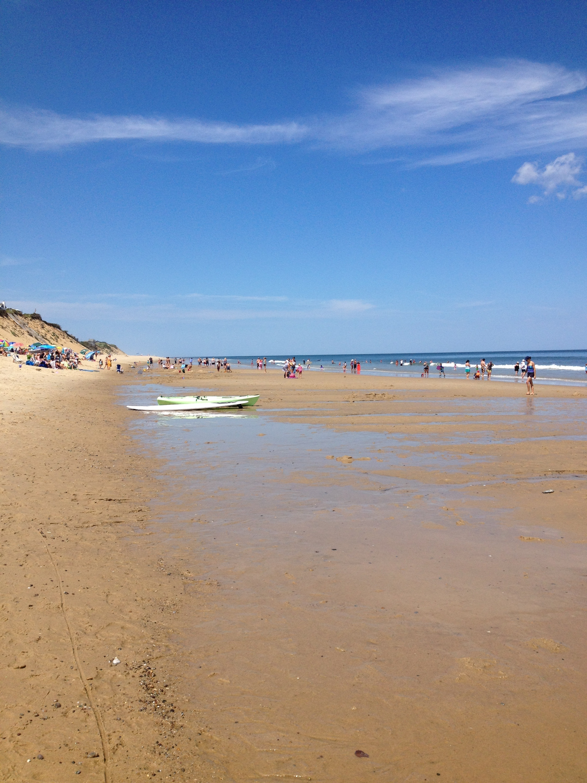 Low Tide at Lecount Hollow Beach: Wellfleet, Massachusetts, USA.